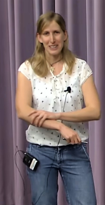 Jennifer Dionne | Plasmonic Methods to Improve Renewable Energy Generation and Storage “Cool Chemical Transformations and Hot Carrier Upconversion: Emerging Plasmonic Methods to Understand and Improve Renewable Energy Generation and Storage” Jennifer Dionne, Associate Professor of Materials Science and Engineering, Stanford University Energy Seminar - January 23, 2017